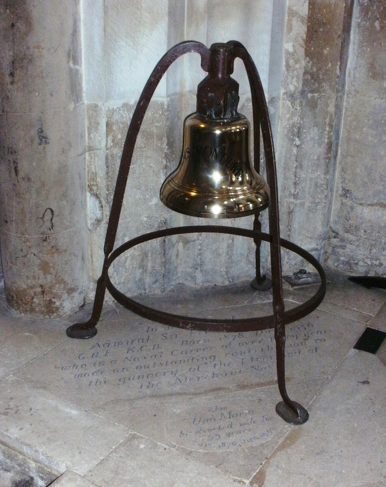 The ship's bell of HMS Iron Duke, flagship of Admiral Sir John Jellicoe in the Battle of Jutland 1916. The bell was presented to Winchester Cathedral by Admiral Sir Frederic Charles Dreyer, GBE, KCB (1878–1956), who was Captain of HMS Iron Duke during that battle. The bell stands above a slab commemorating Dreyer and his wife. Location: In the west of the Choir.